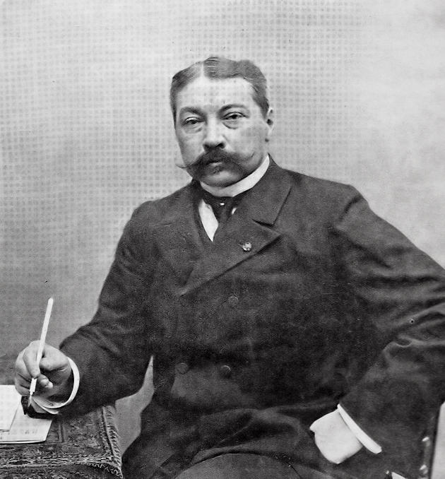 Mr. W.F. van Leeuwen